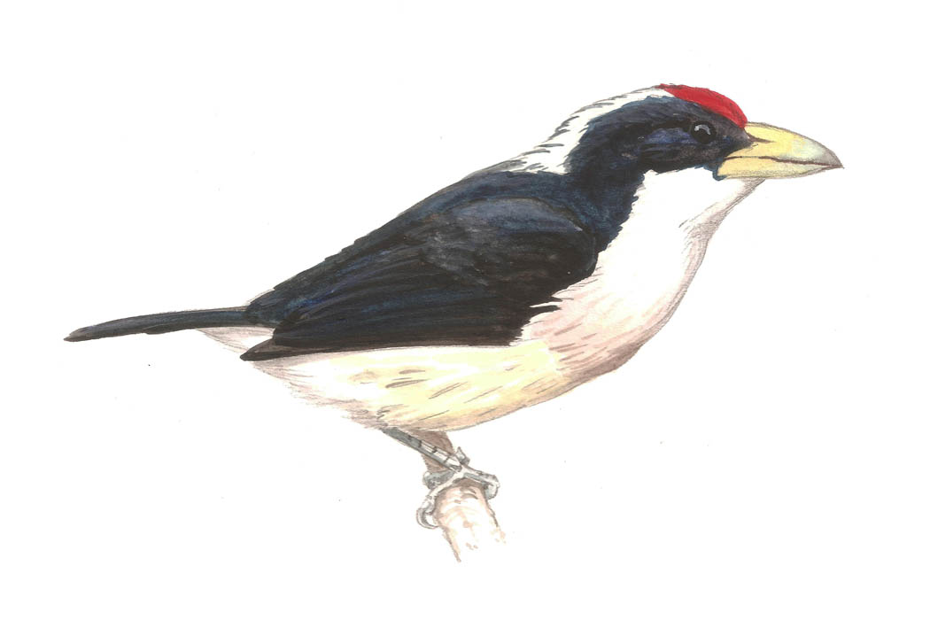 White-mantled Barbet (Capito hypoleucus) - Watercolor, Romain Risso.